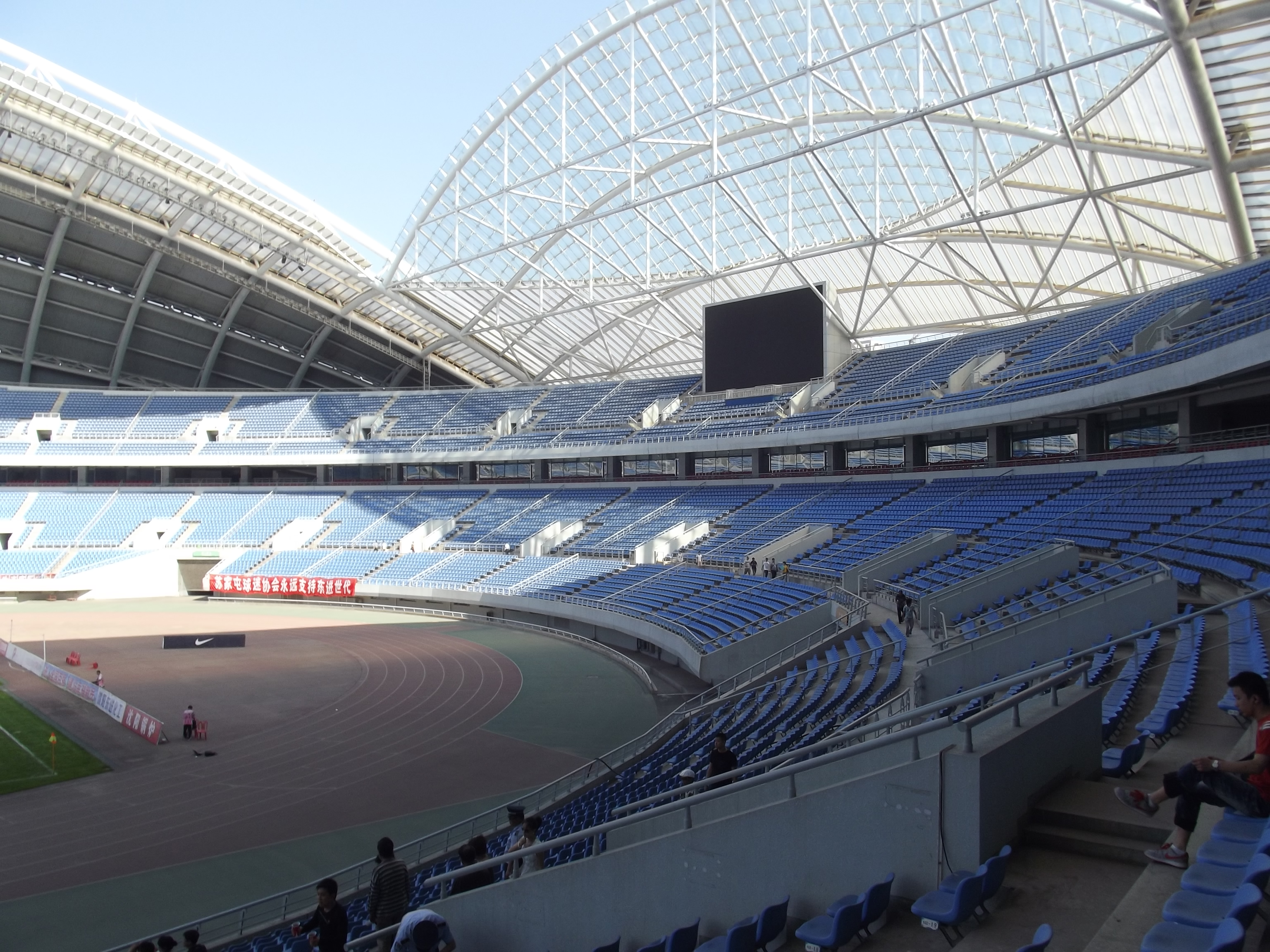 Shenyang Olympic Stadium (inside)